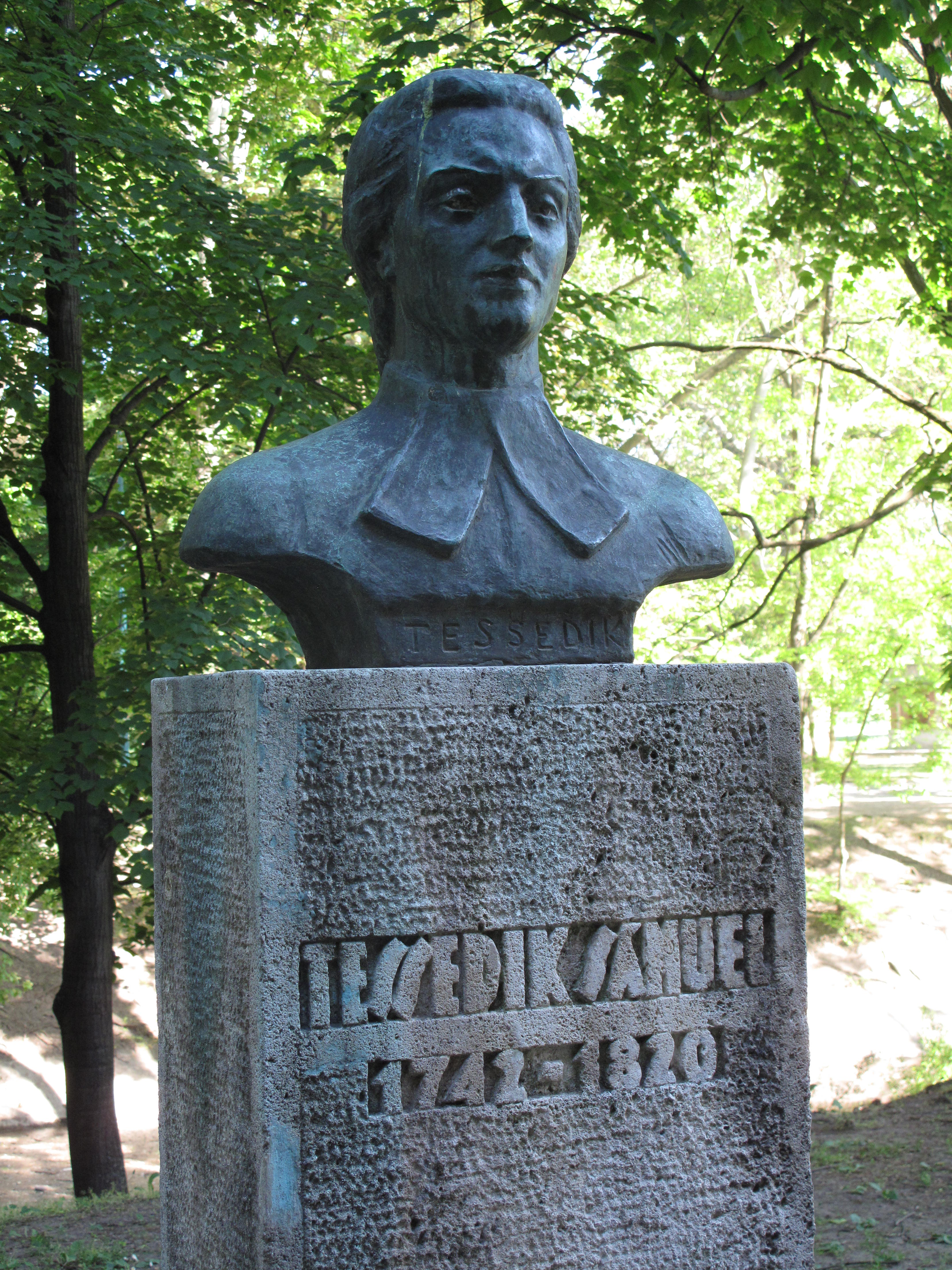 Sámuel Tessedik bust in Budapest District XIV, City Park. Sculptor: Iván Szabó. Erected in 1971.